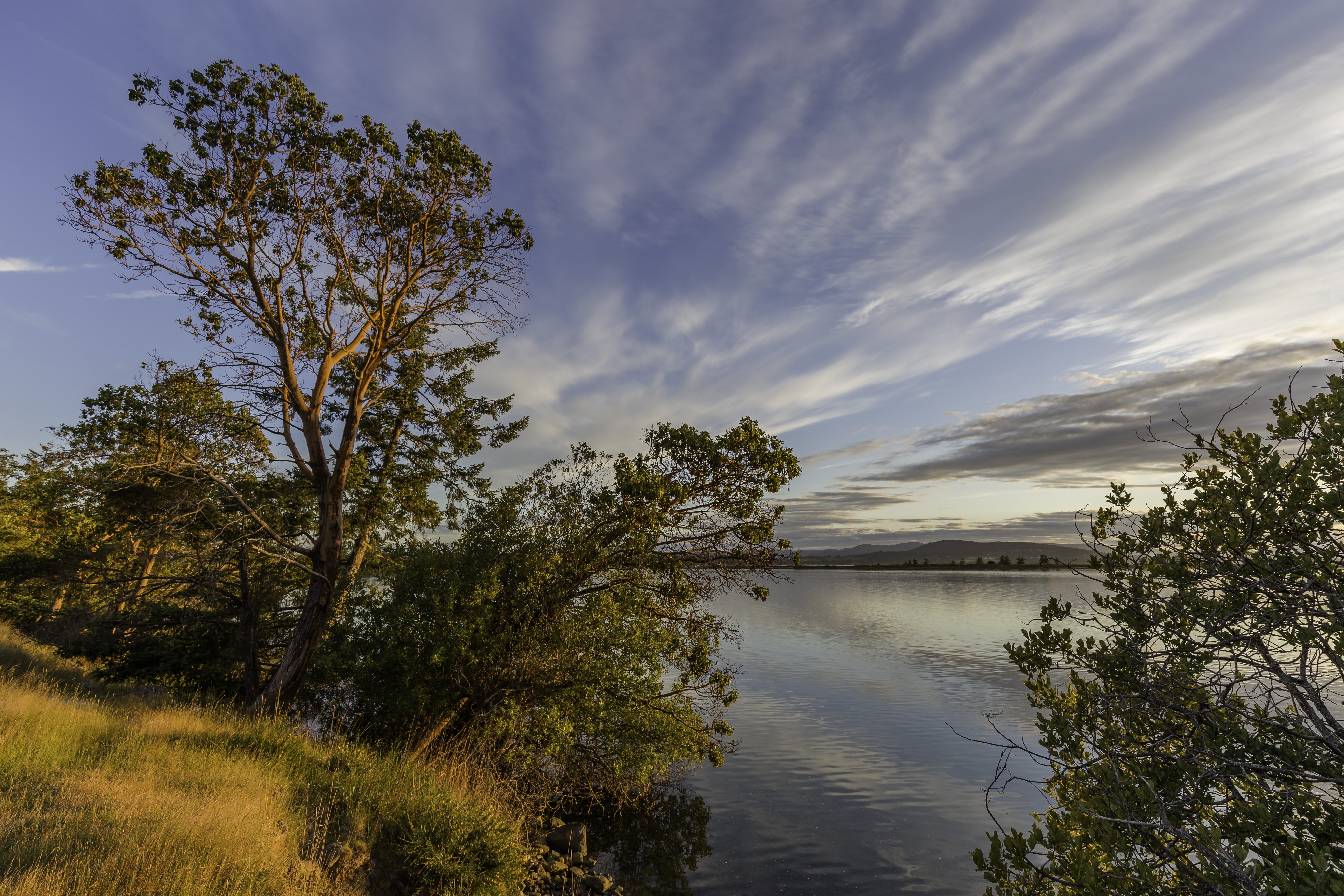 Trees (Arbutus on the left) during the sunset in Gulf Islands National Park Reserve, Sidney Island, British Columbia, Canada